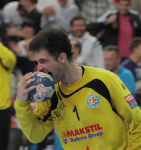 This a picture of Darko Stanic.